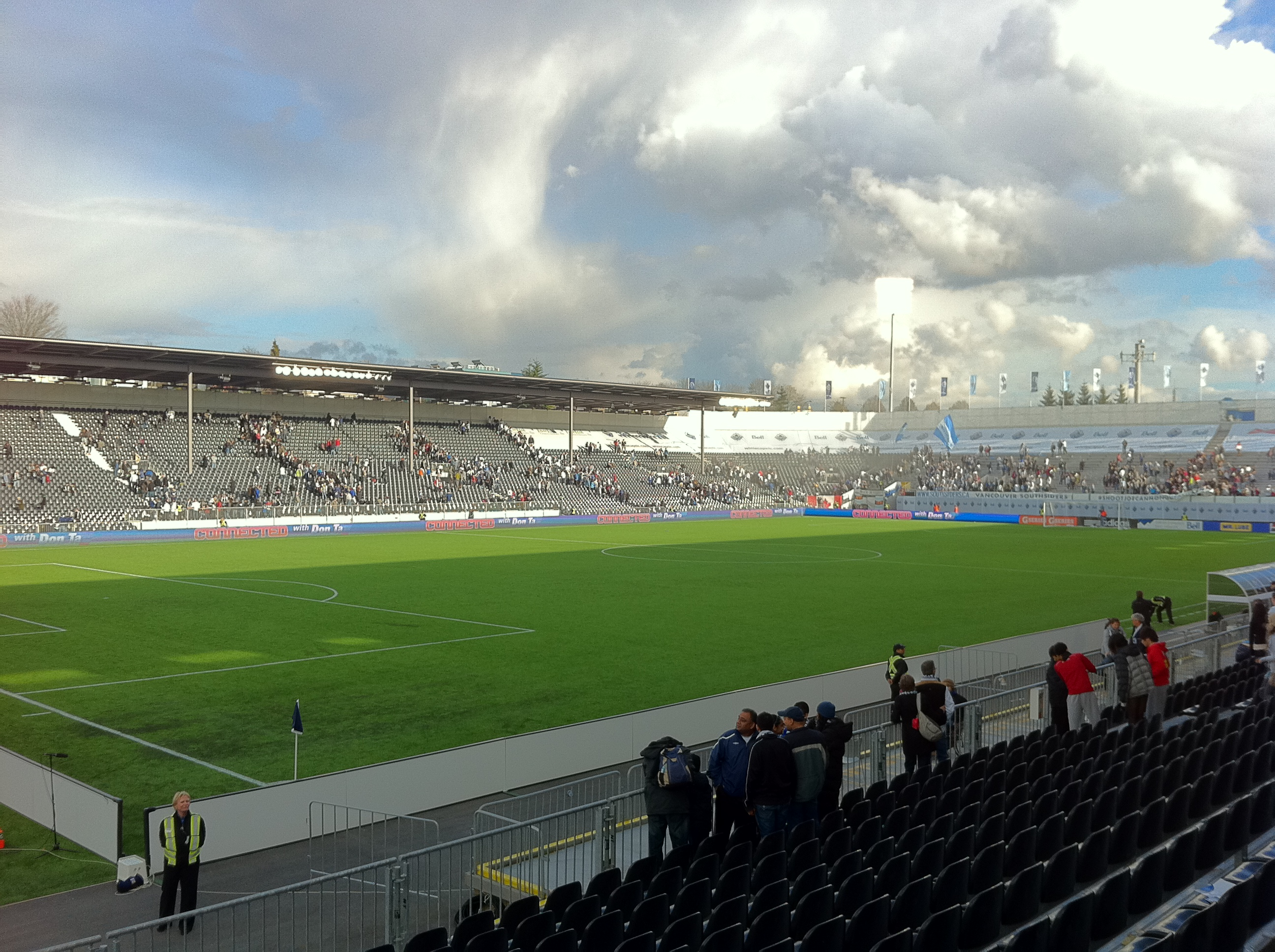 An empty Empire field after the legendary draw between Vancouver Whitecaps FC vs. Sporting Kansas City 2 April 2011